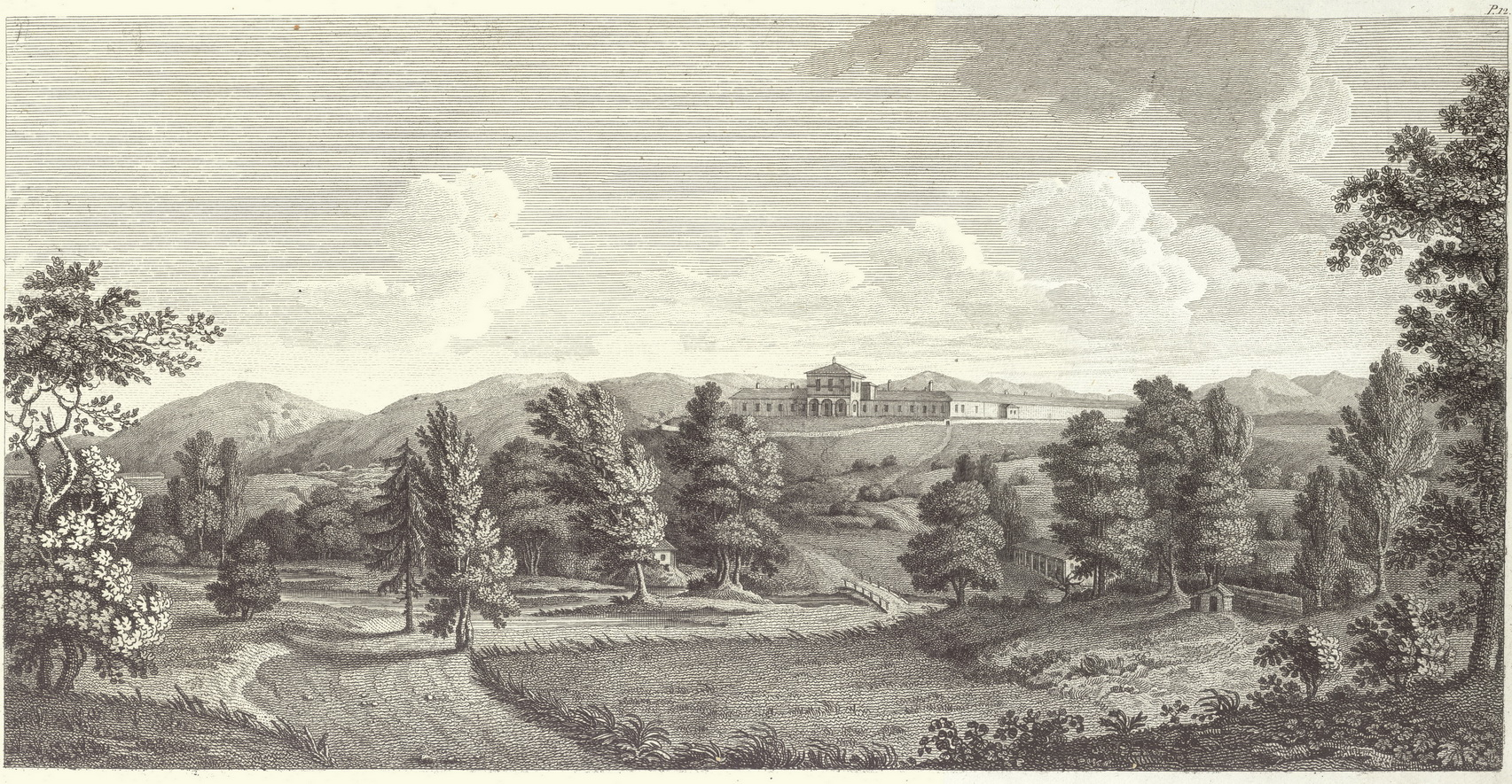 Имение «Ган яфе»